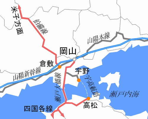 Map of Okayama station.